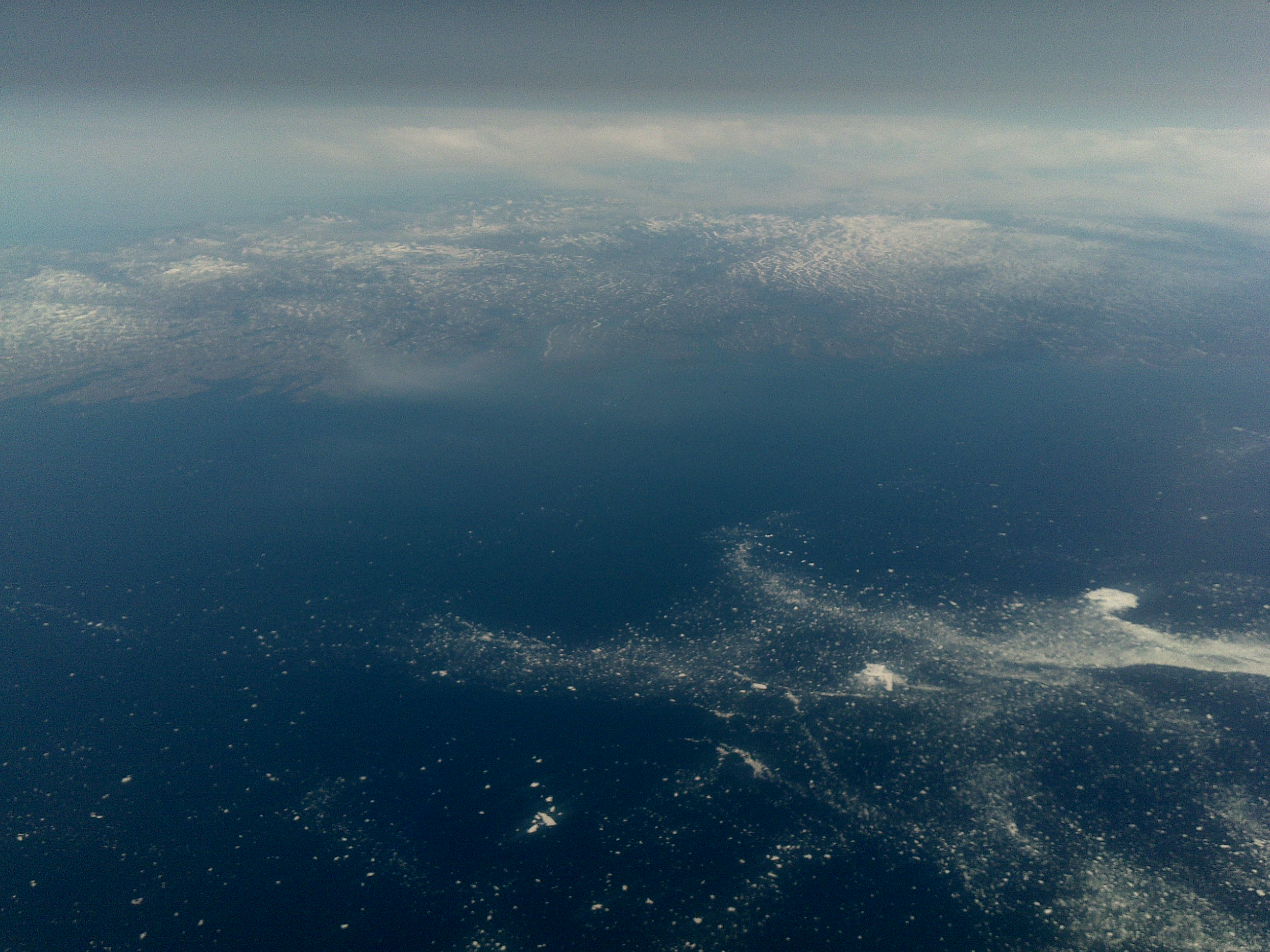 Ungawa Bay a few miles west of Cape Chidley, Labrador, Canada. FDrift-ice in the front, mainland Labrador in the background. Photo from midJuly, viewer's angle from north-west towards south-east.